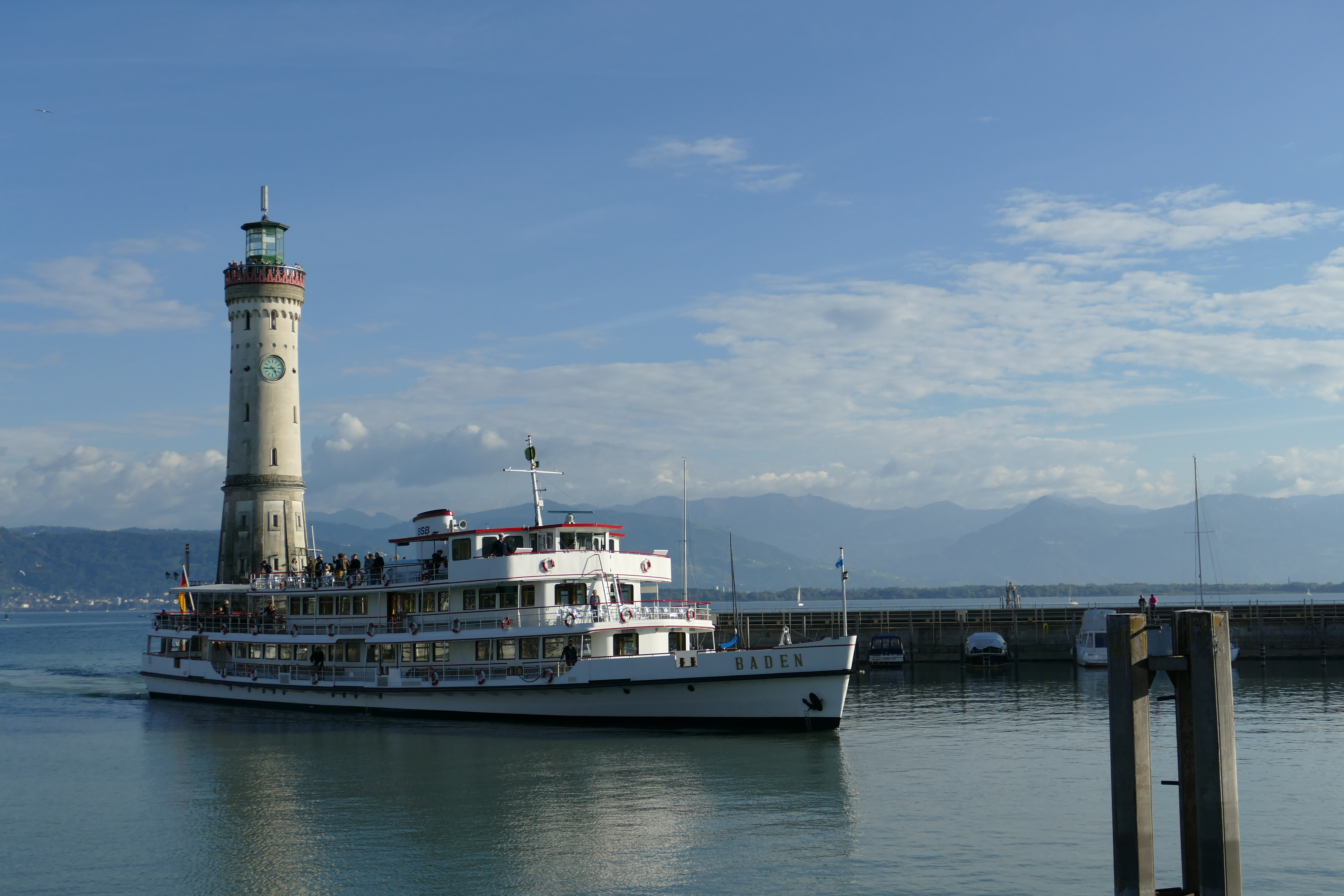 The ship Baden is coming into Lindau harbor